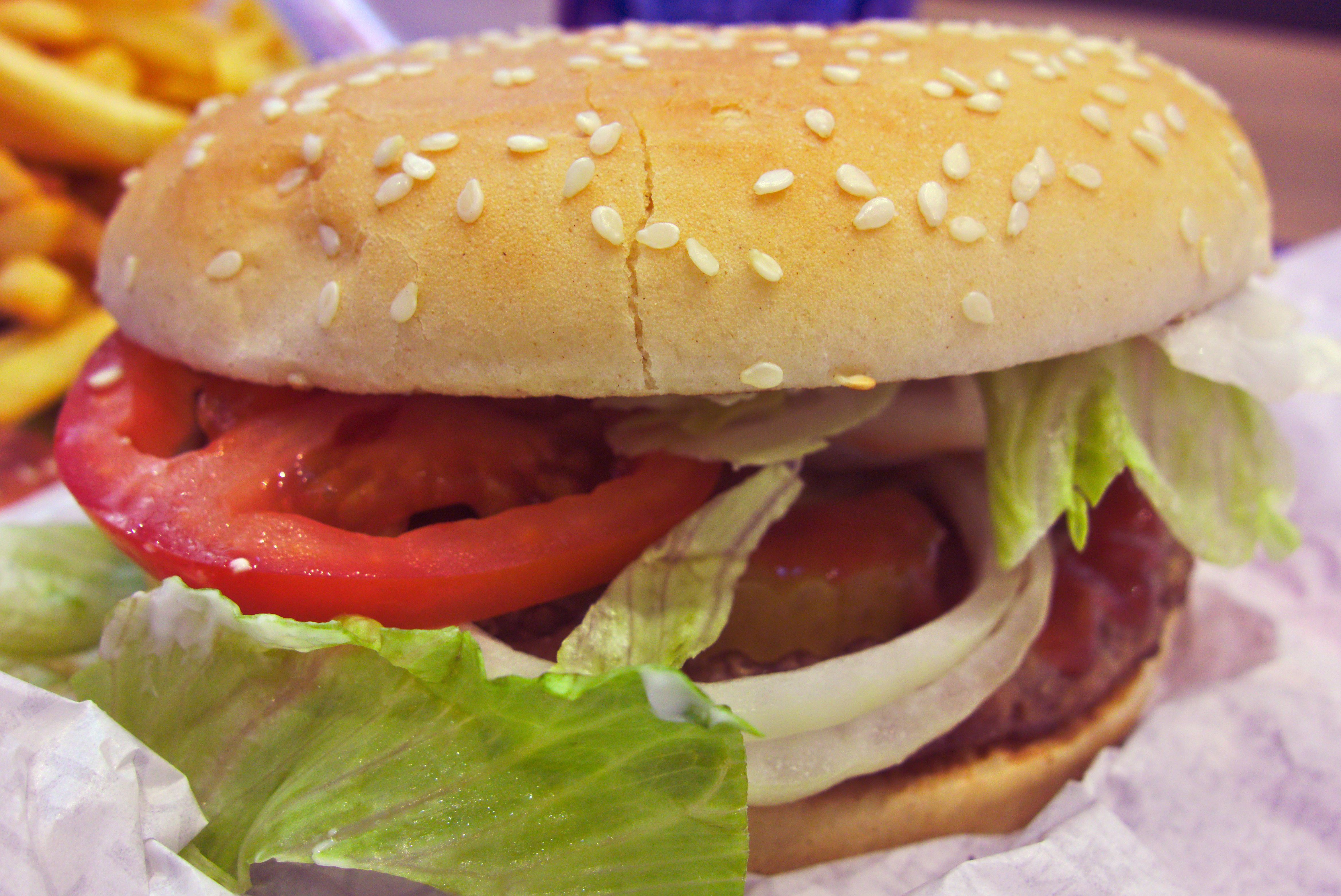 Whopper, bought at the Burger King restaurant Wien Hauptbahnhof, EG 114, 1100 Vienna, Austria